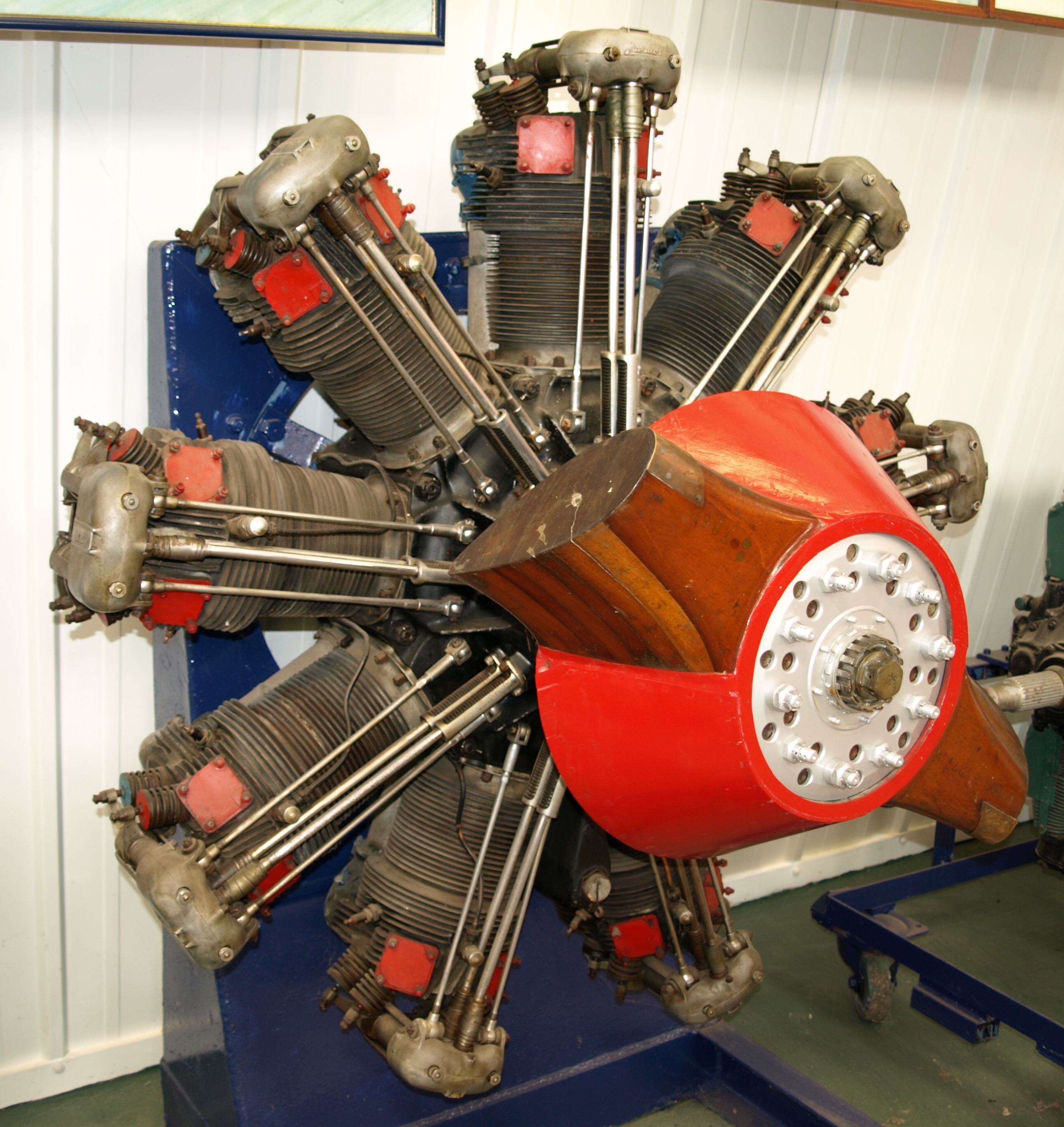 Bristol Jupiter VIIF aircraft engine